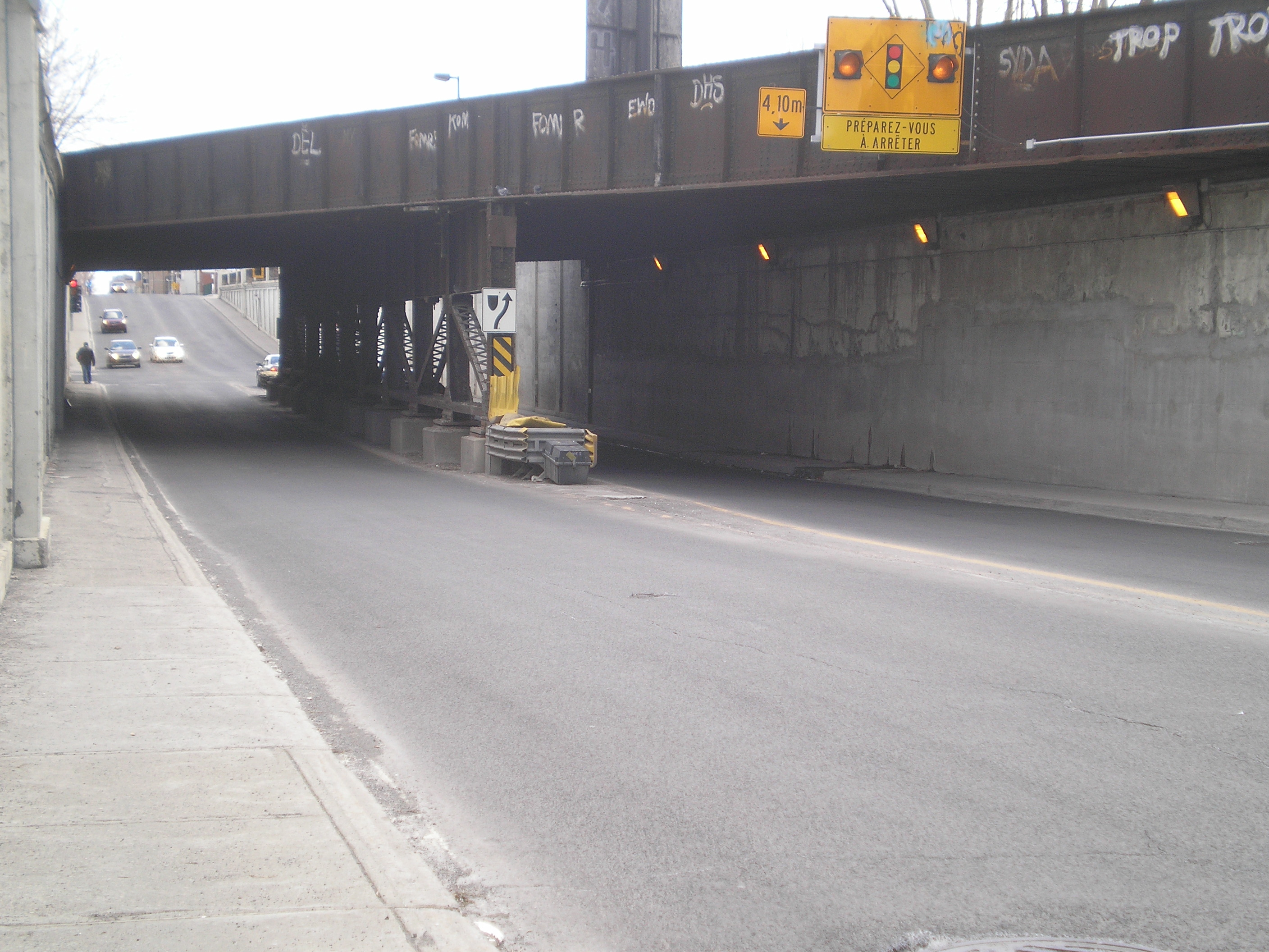 Iberville Street, as it approaches the Tunnel de la mort from the north